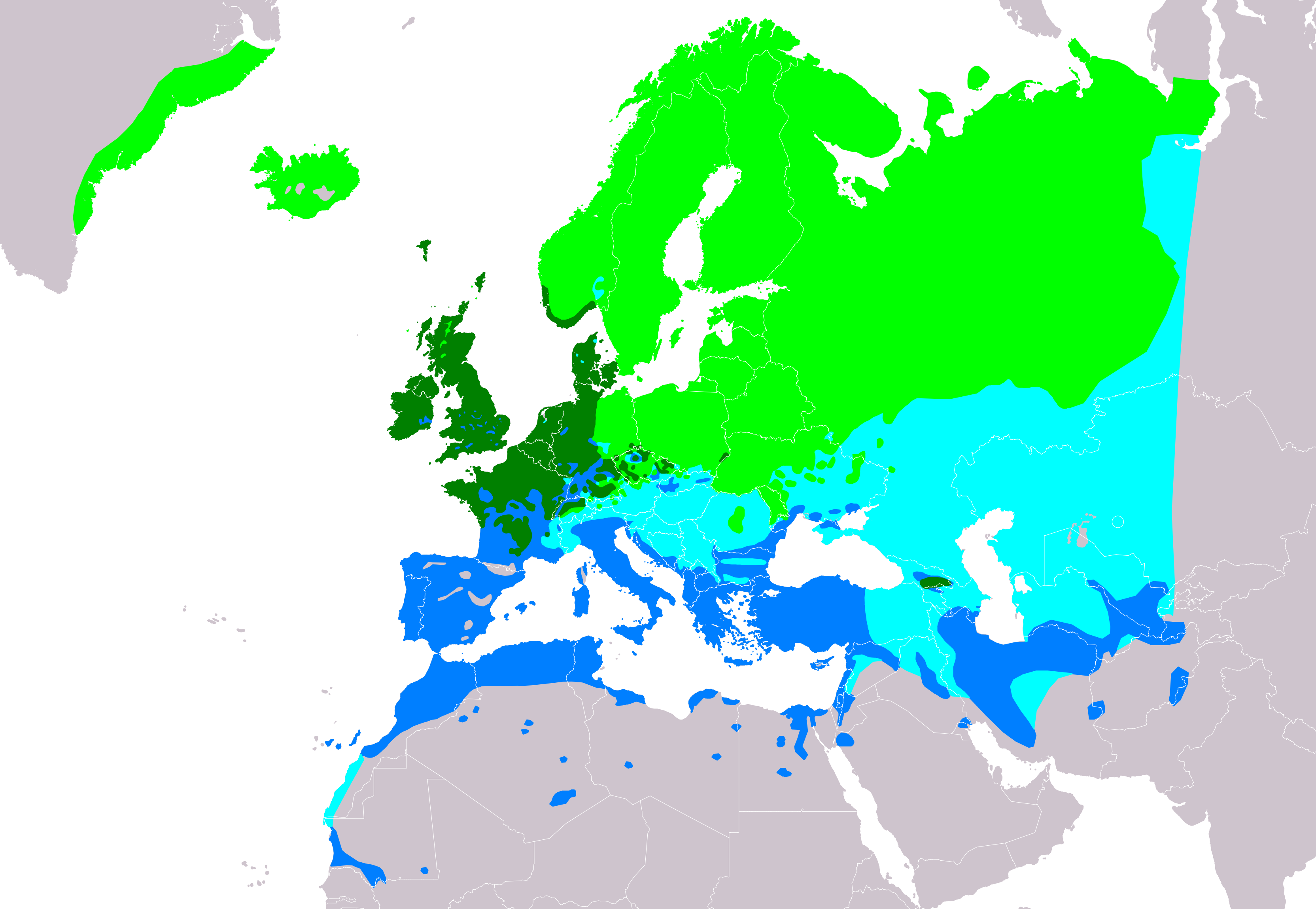 The distribution map of meadow pipit (Anthus pratensis) according to IUCN version 2019.1; key: Legend: Extant, breeding (#00FF00), Extant, resident (#008000), Extant, passage (#00FFFF), Extant, non-breeding (#007FFF)